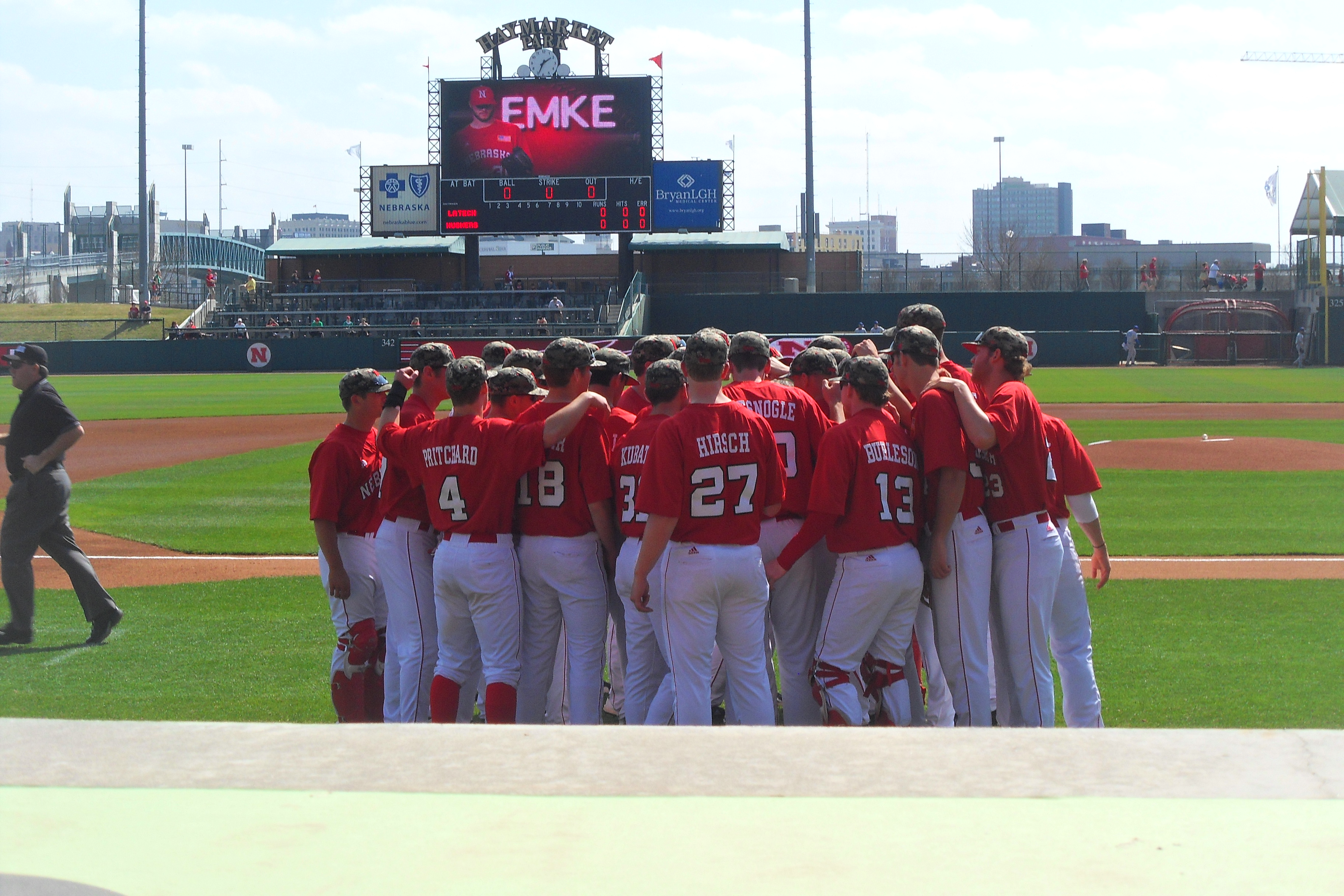 Nebraska Cornhuskes baseball team wearing camo hats agaisnt Louisiana Tech.